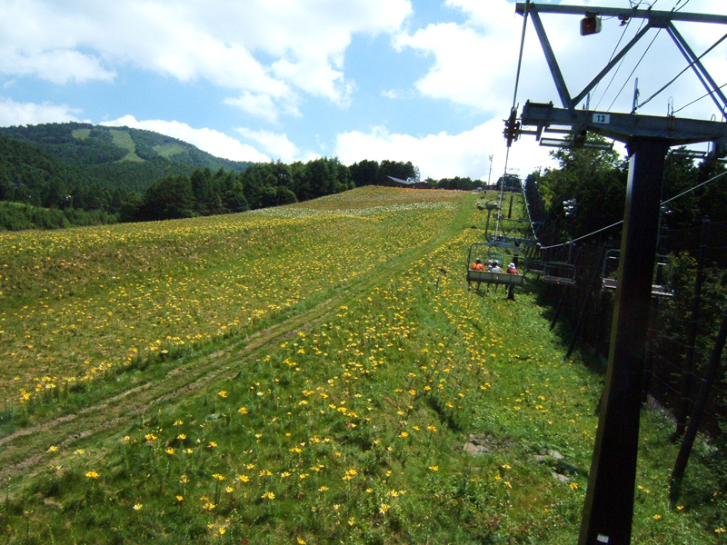 Hunter Mountain Shiobara Ski resort, in summer. The lily flower garden. Mount Takahara, Nasushiobara, Tochigi, Japan